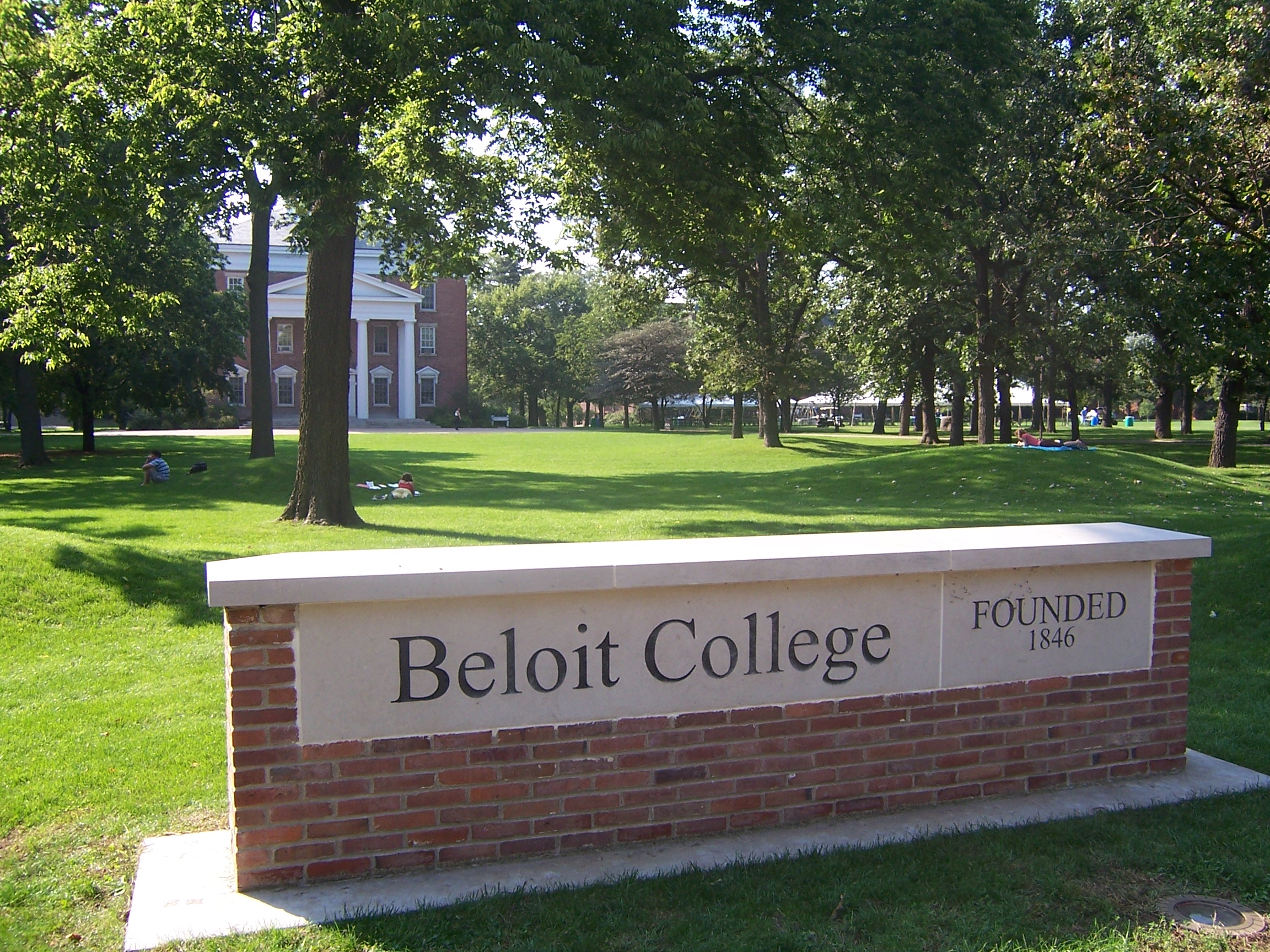 Academic Side of Beloit College, at Beloit, Wisconsin, United States.